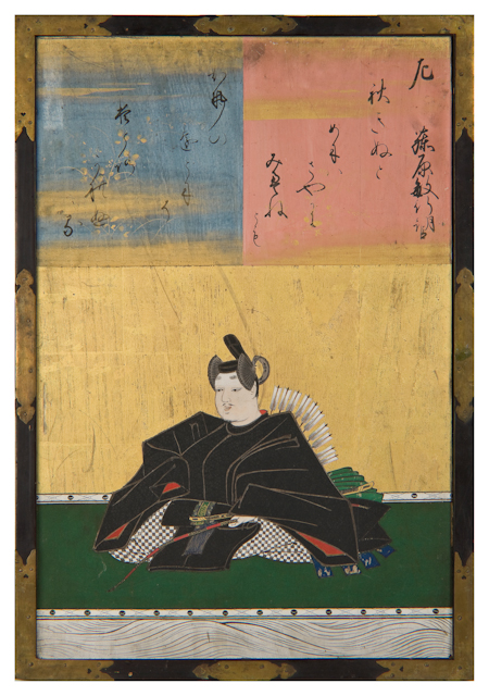 Sanjūrokkasen-gaku (Thirty-six Poetry Immortals framed picture) #17: Fujiwara no Toshiyuki Asomi